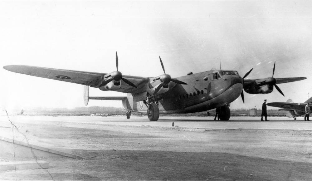 PictionID:40971688 - Title:York Avro York - Catalog:15_002682 - Filename:15_002682.tif - Image from the Charles Daniels Photo Collection album "British Aircraft."PLEASE TAG this image with any information you know about it, so that we can permanently store this data with the original image file in our Digital Asset Management System.SOURCE INSTITUTION: San Diego Air and Space Museum Archive